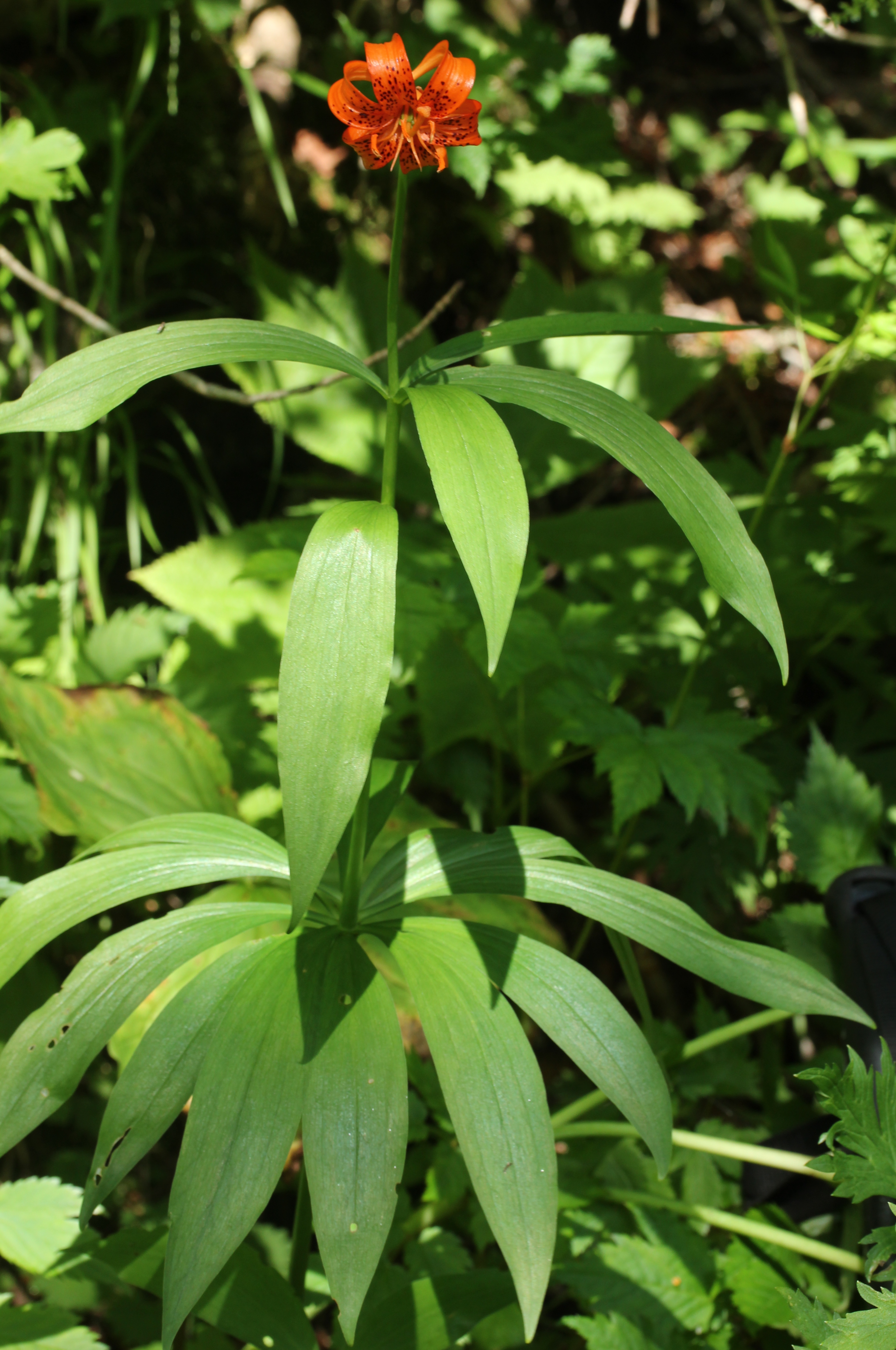 Lilium medeoloides in Mount Kisokoma, Nagano prefecture, Japan.